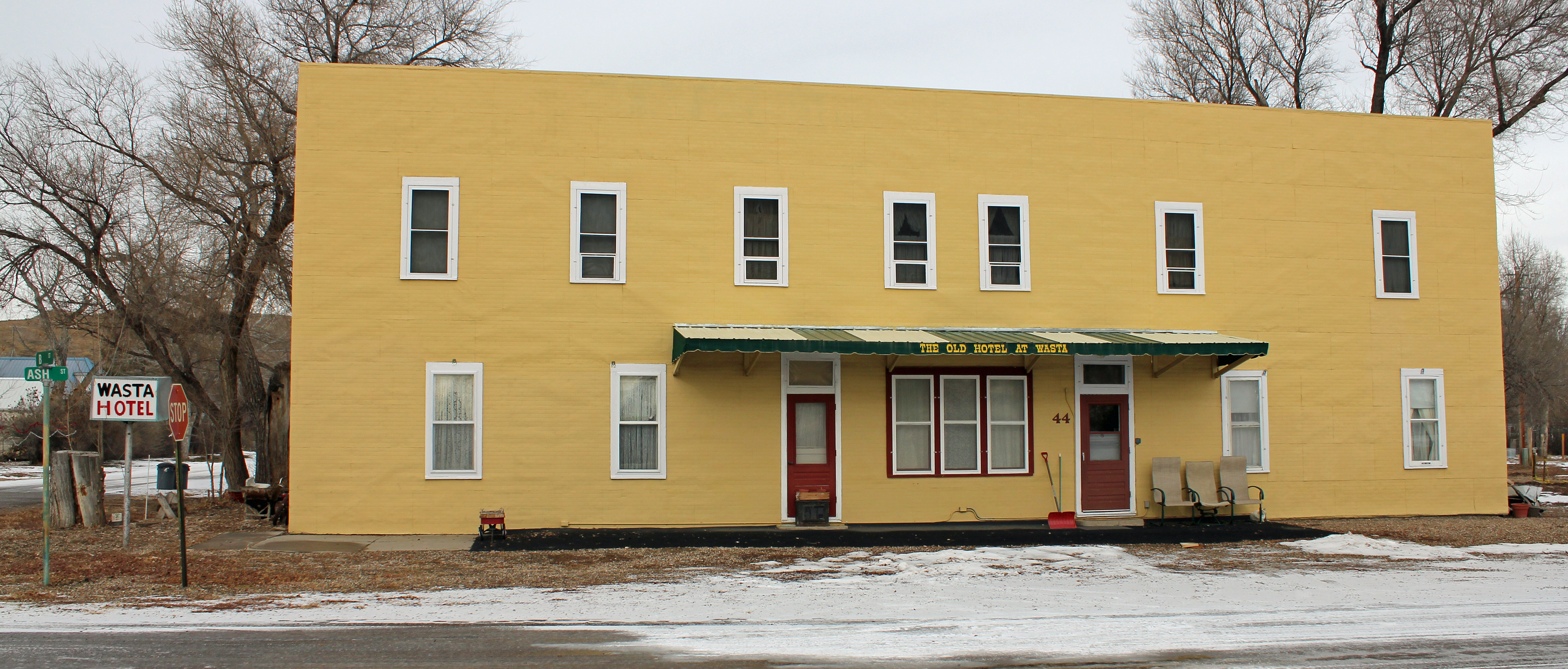 The Calumet Hotel in Wasta South Dakota. Now called the Wasta Hotel, the building is listed on the National Register of Historic Places.